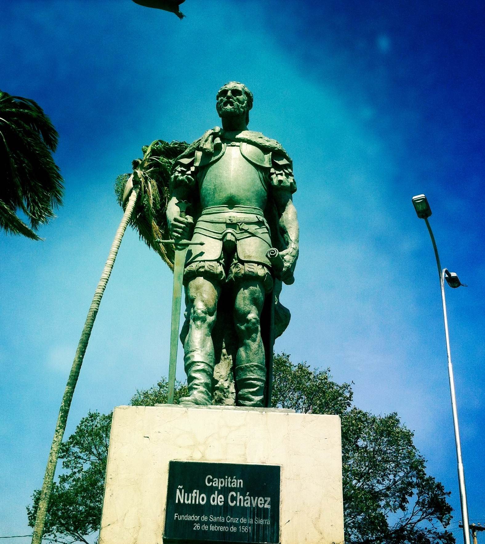 Monument to the Captain Ñuflo de Chávez en Santa Cruz, Bolivia.